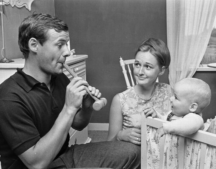 Rudi Hansen and Harald Nielsen with their child on holidays in Vendsyssel